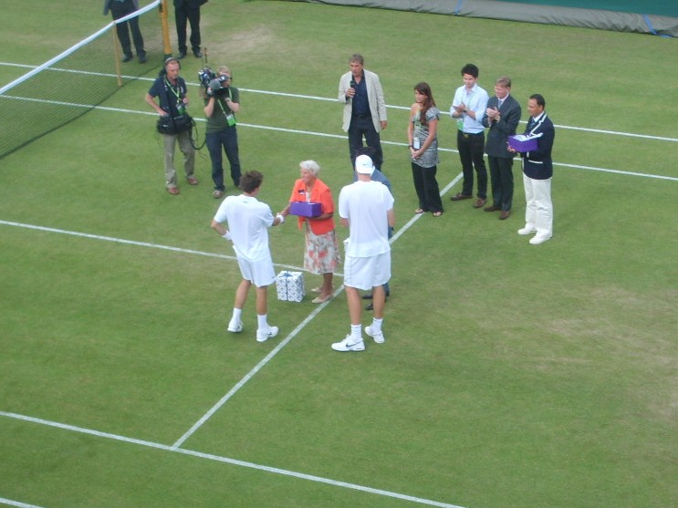 Ann Haydon-Jones giving awards to the players after Isner-Mahut match, Wimbledon 2010.